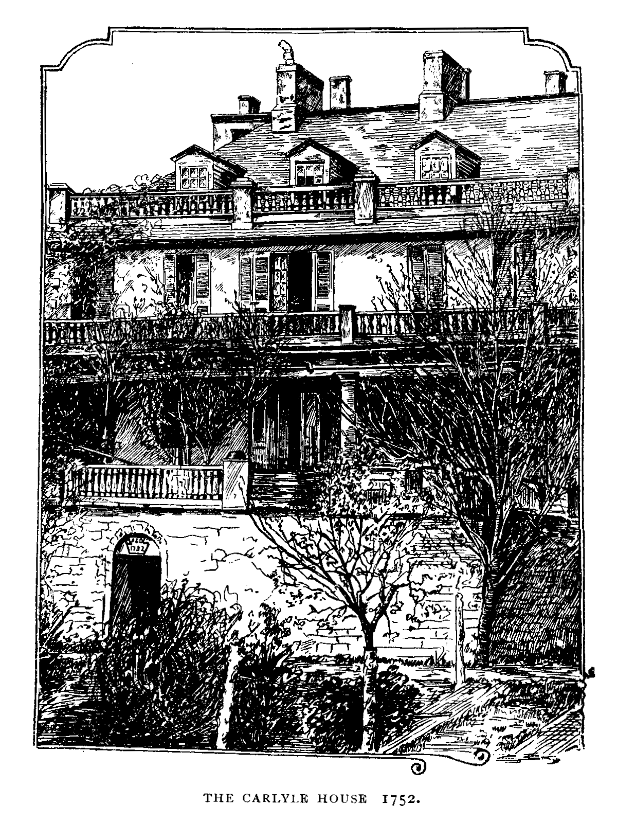 Image of the Carlyle House in 1909, showing the original house completed in 1753 and additional terraces added in the mid-nineteenth century.